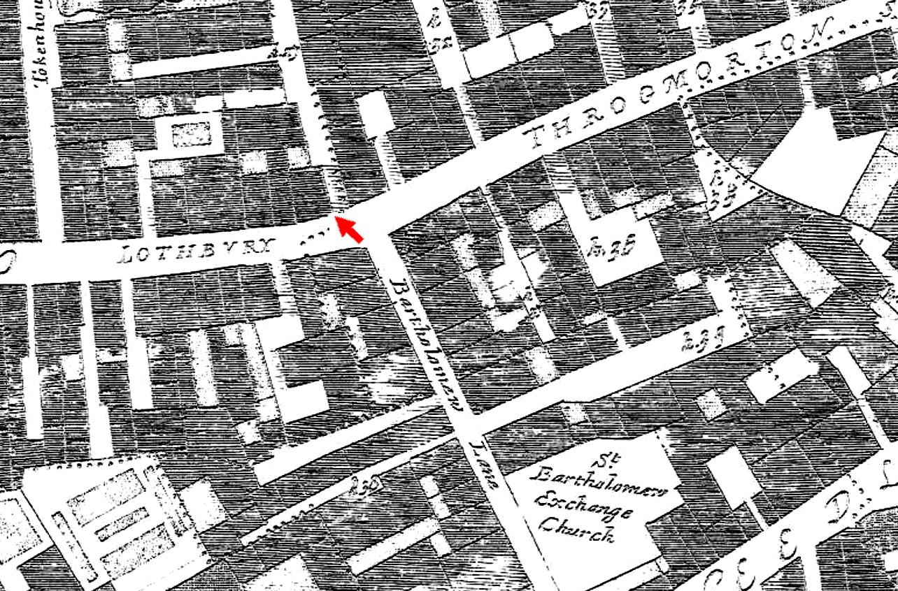 Location of the Whalebone Tavern arrowed on Ogilby and Morgan's Large Scale Map of the City As Rebuilt By 1676. Arrow added by Philafenzy.